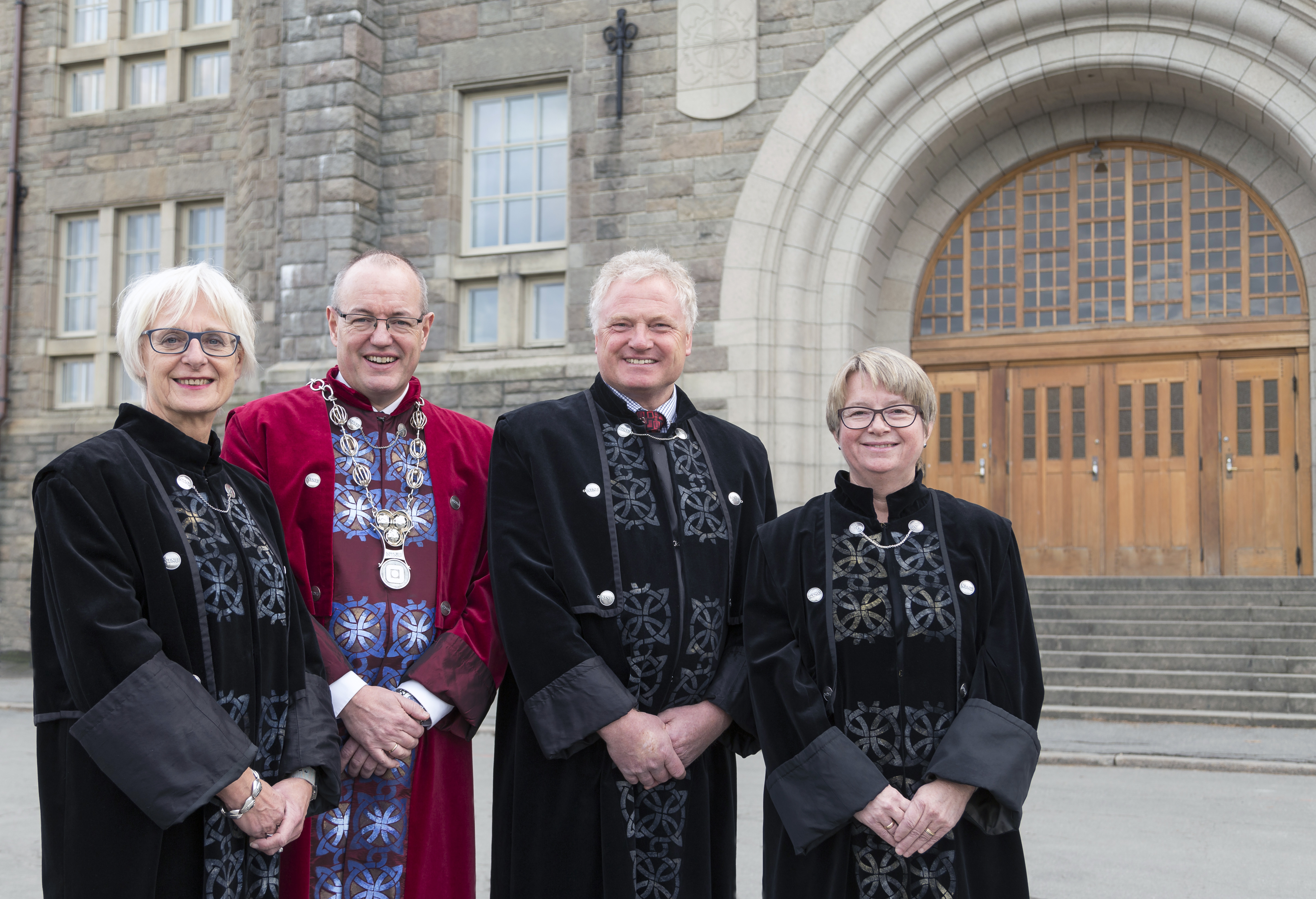 The presidency/rectorate of the Norwegian University of Science and Technology, Nov. 2014. From the left: The Rectorate at NTNU in front of the main Administration Building after the doctoral Awards Ceremony, Friday Nov. 14 2014. From the left: Pro-Rector for Research Kari Melby, Rector Gunnar Bovim, Pro-Rector for Innovation Johan E. Hustad, Pro-Rector for Education Berit Kjeldstad.